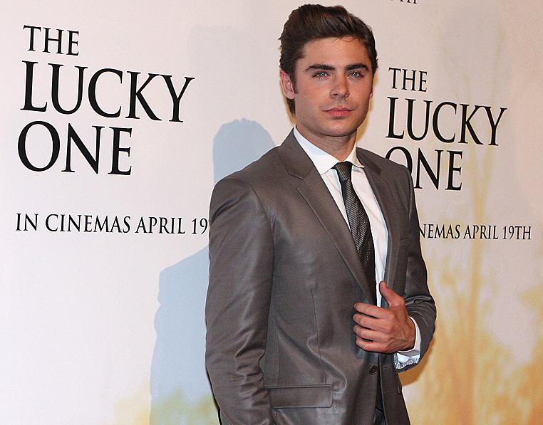 The Lucky One: Zac Efron, The World Premiere At Bondi Juction, Sydney, Australia 2012.